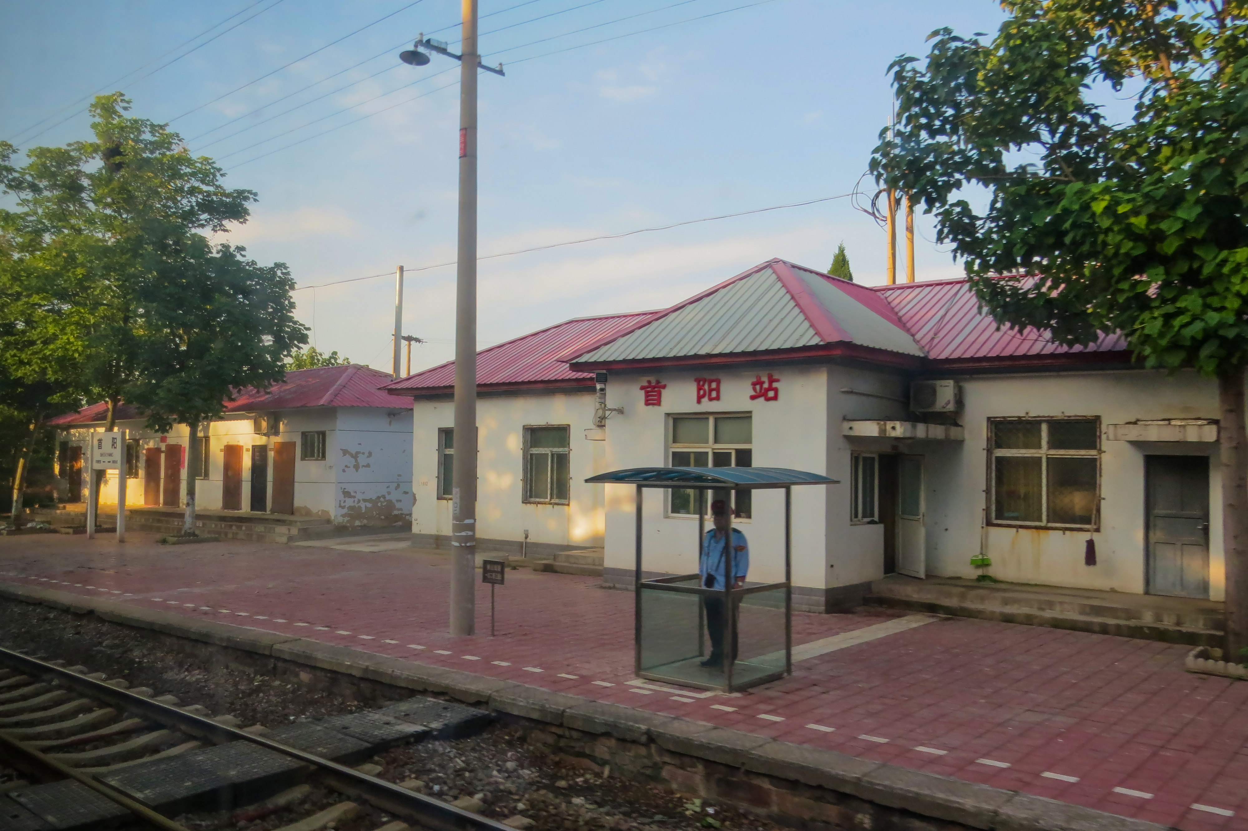 Next station: Fenglingdu. (Nothing to interchange) Note the font in red CRLi...